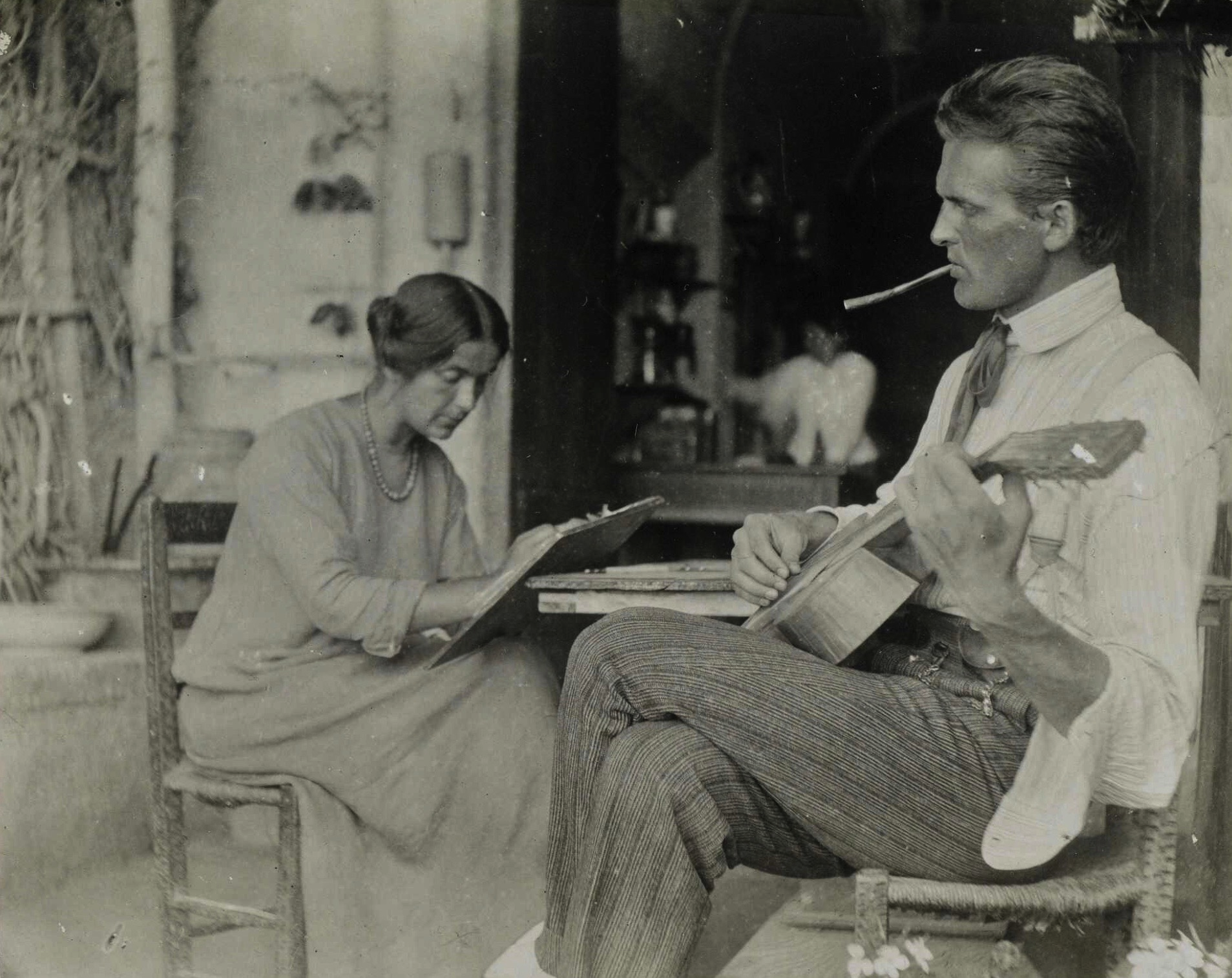 The Austrian Elsa Oeltjen-Kasimir (1887–1944) and her German husband Jan Oeltjen (1880–1968), both painters, in Italy.